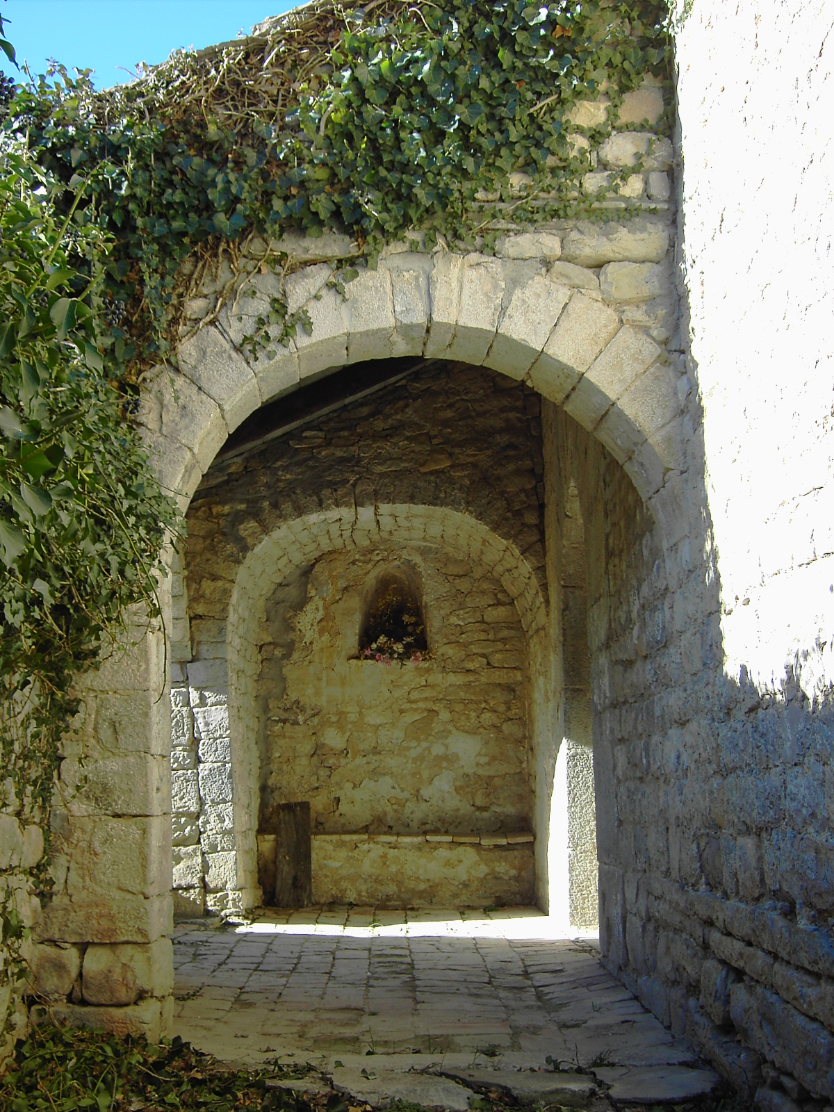 Church's porch in Sarsa de Surta, Huesca, Spain.